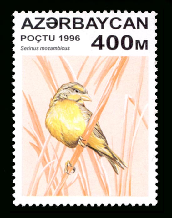 Stamp of Azerbaijan